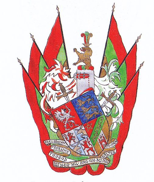 Fraternitas Baltica crest